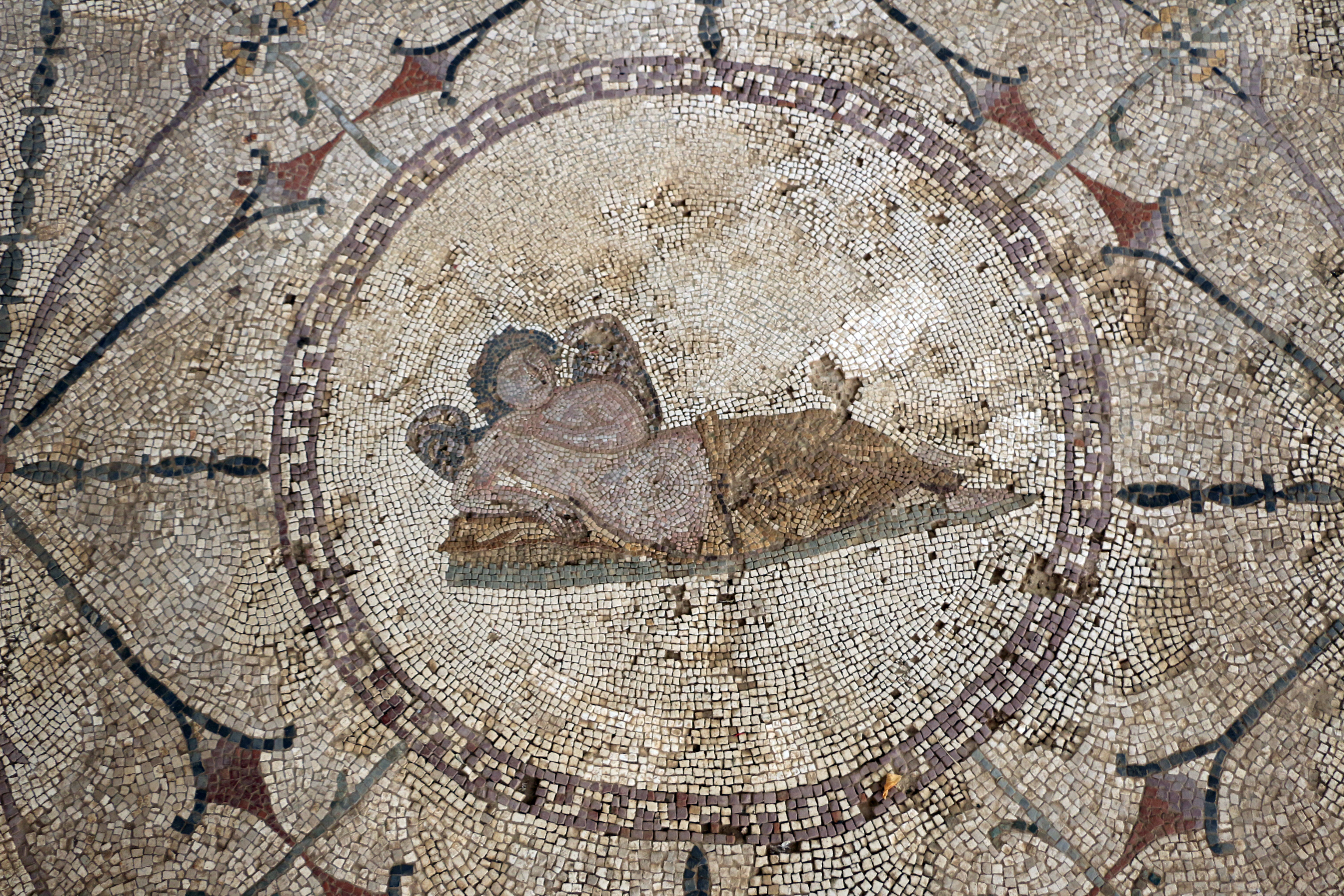 Ancient Roman villa of Risan - Mosaics